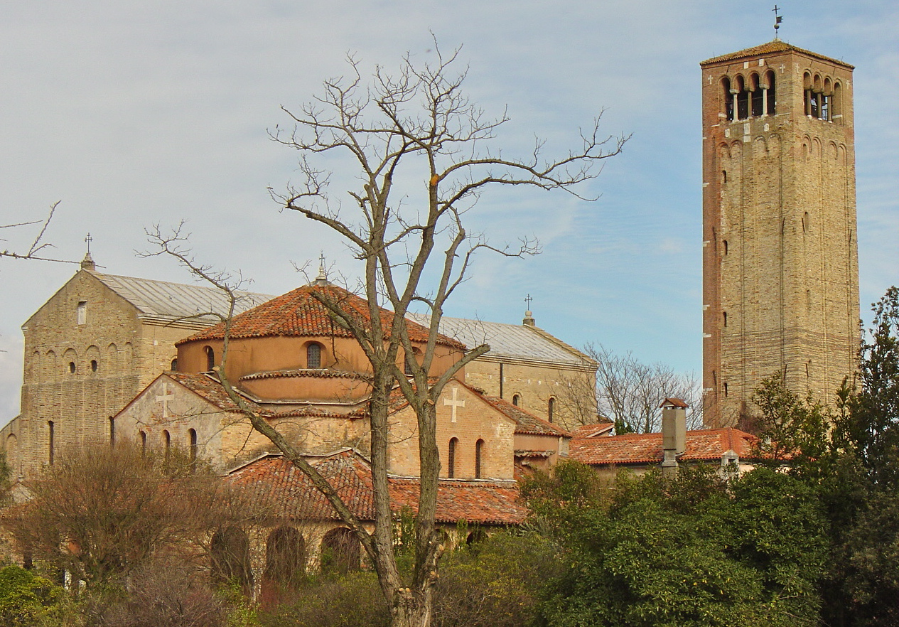 Torcello, Italy